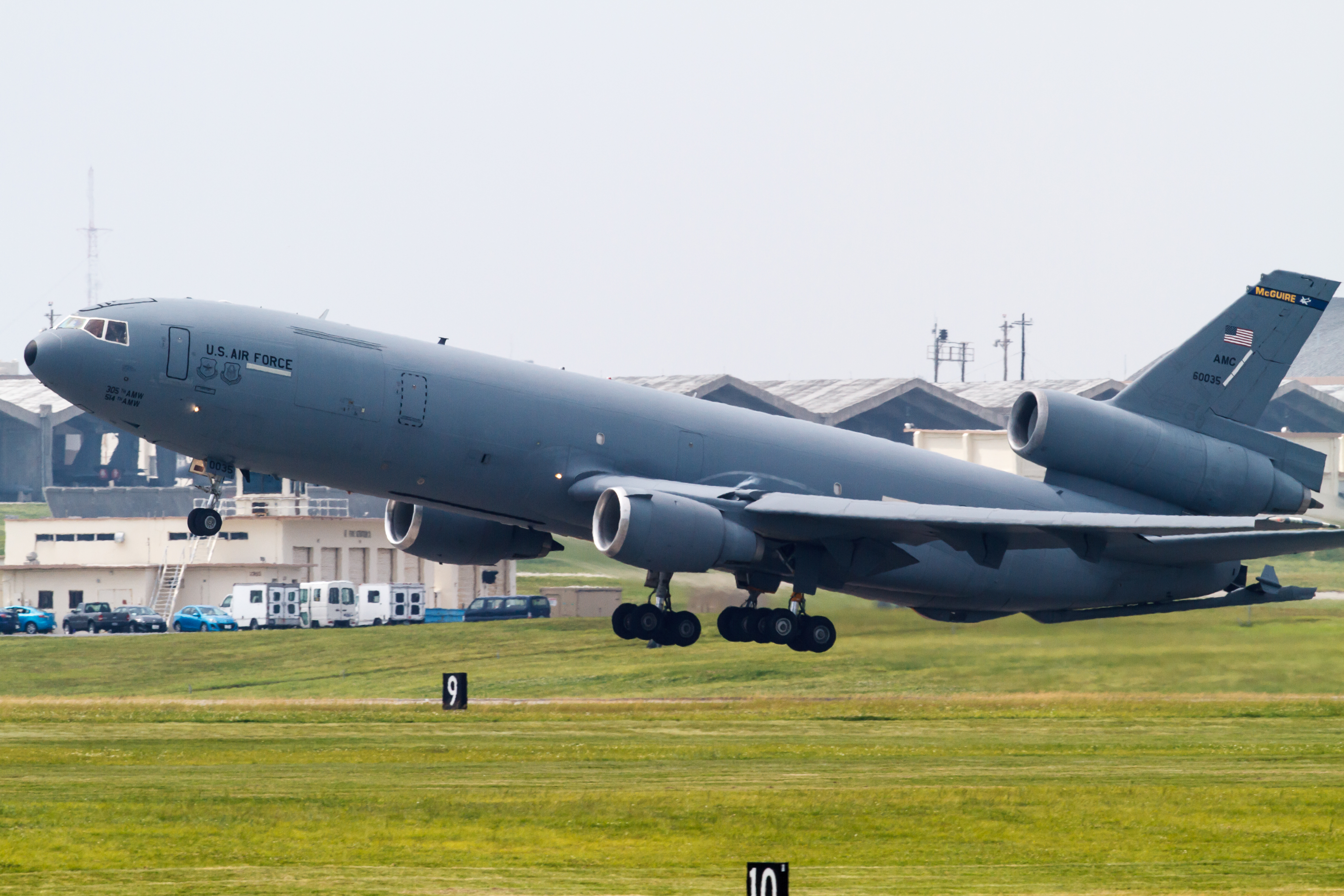 Aircraft: McDonnell Douglas KC-10A 86-0035 (sn: 48248/423) Squadron: USAF Air Mobility Command / 305AMW Base: McGuire AFB(KWRI), New Jersey, United States 09/05/2013 USAF Kadena AFB, Japan